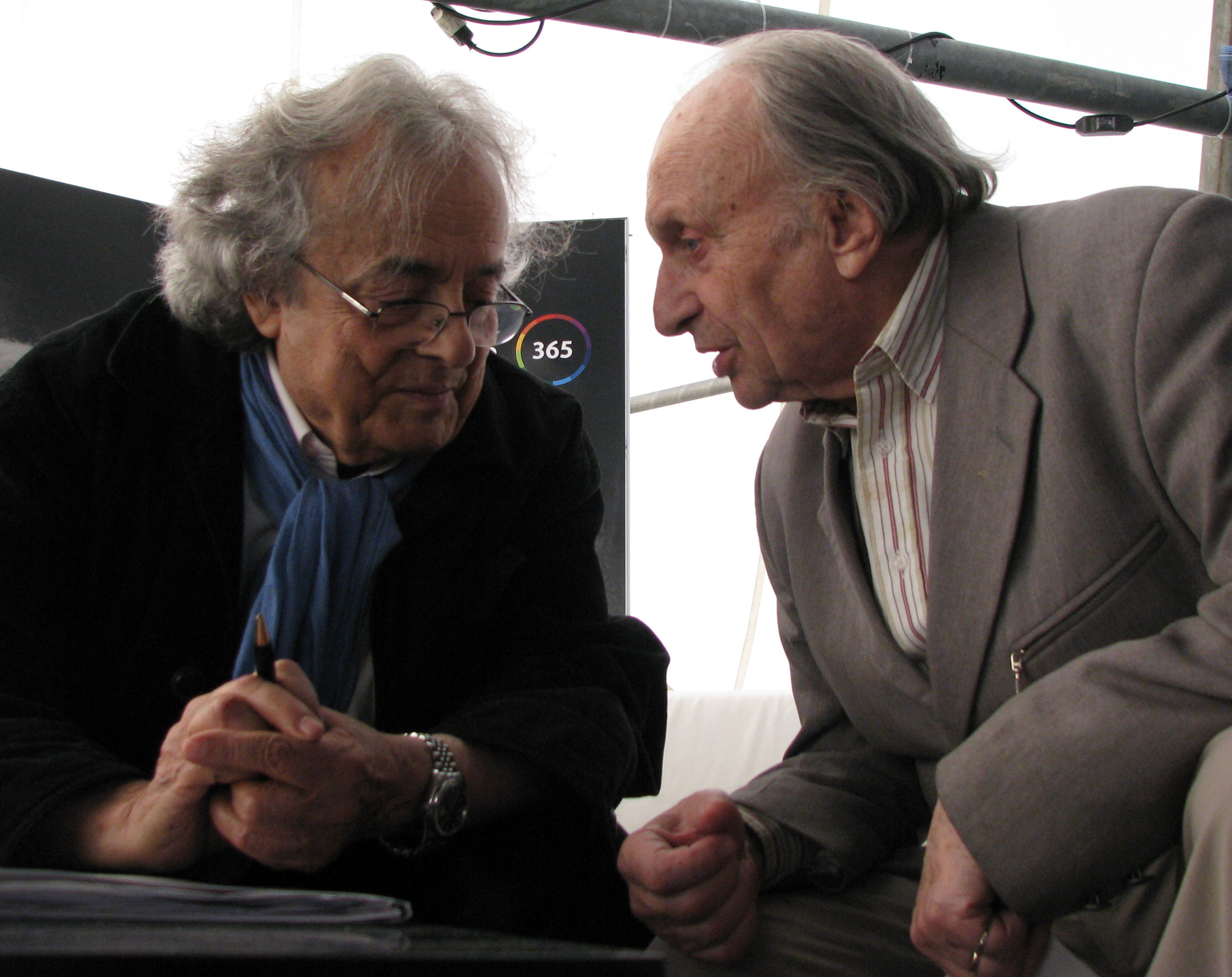 Adunis (Ali Ahmad Said Esber, b. January 1, 1930 in Al Qassabin, Latakia, French Syria) - Syrian poet and Leszek Elektorowicz (b. as Leszek Witeszczak, May 29, 1924 in Lviv, d. September 18, 2019 in Kraków) - Polish writer, translator, and essayist. He lived in Kraków, Poland.